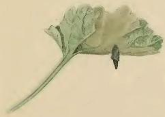 Stainton’s Natural History of the Tineina (1855–1873): Coleophora lineolea mined leaf of Ballota nigra